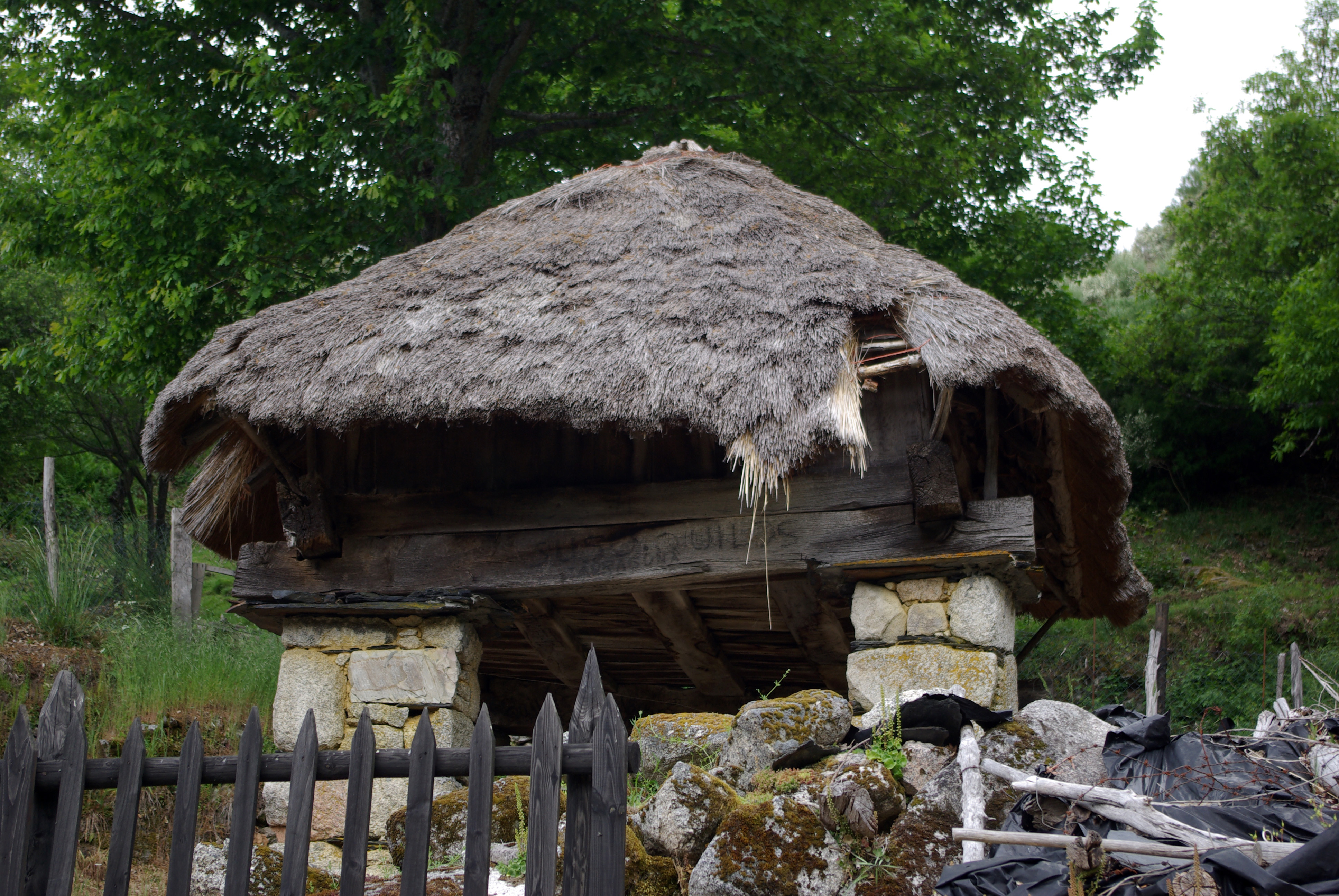 Hórreo in Campo del Agua with a thatched straw, Villafranca del Bierzo (León, Spain)